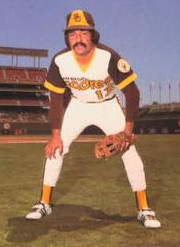 Professional baseball player Fernando Gonzalez